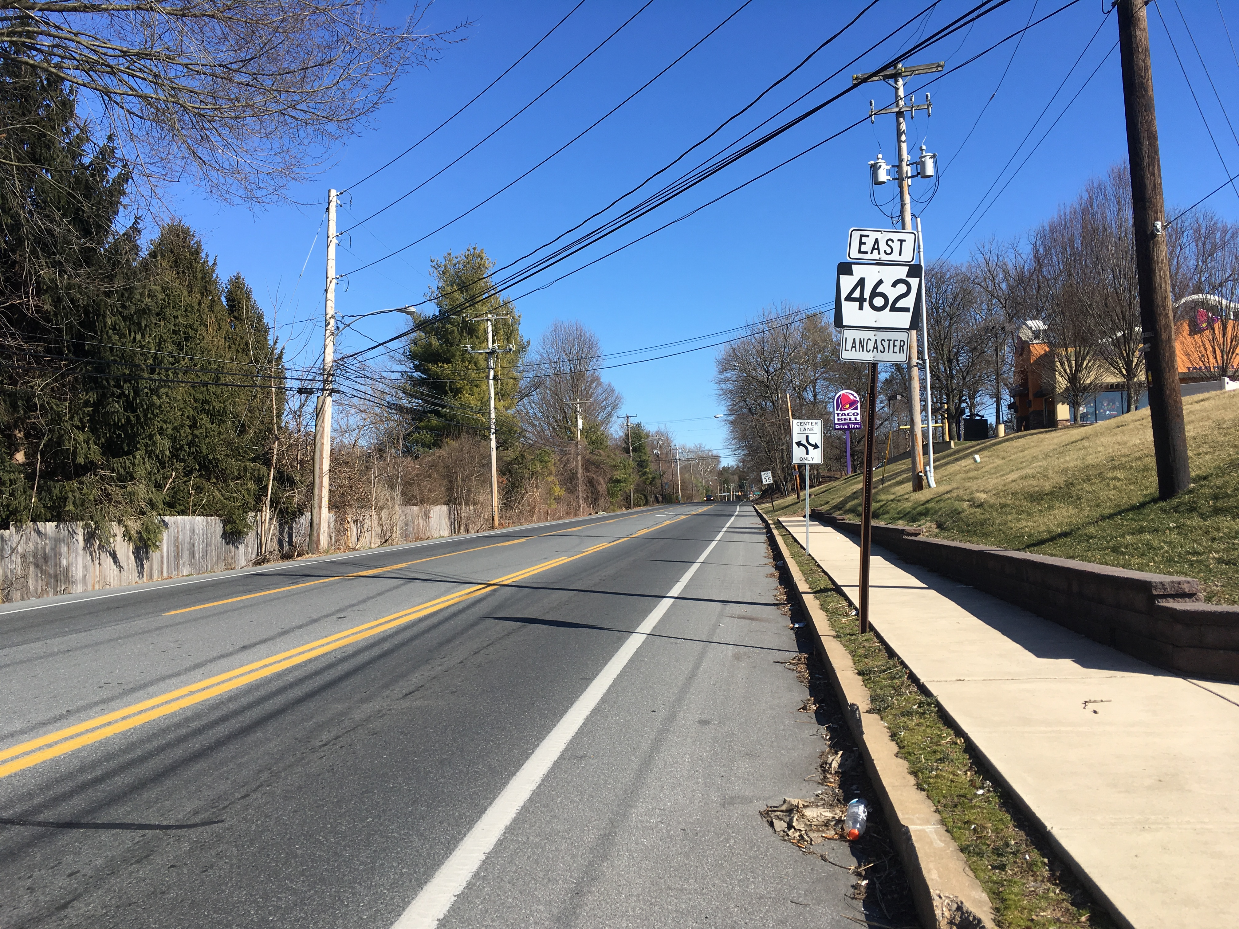 Eastbound Pennsylvania Route 462 (Columbia Avenue) past the intersection with Jackson Drive in Lancaster Township, Pennsylvania